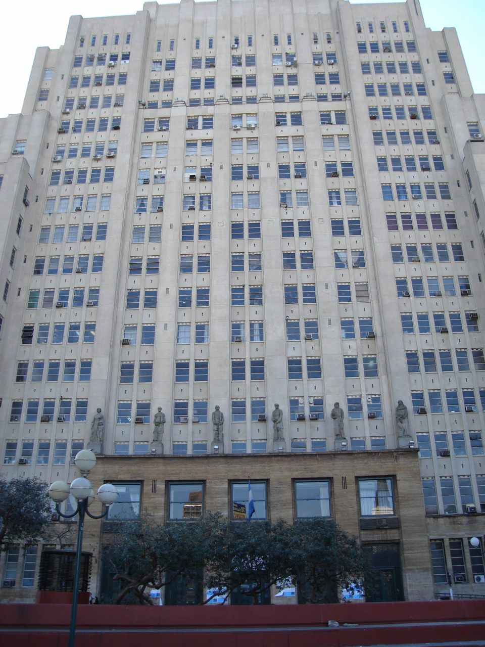 Main building of the University of Buenos Aires School of Medicine, completed in 1944.